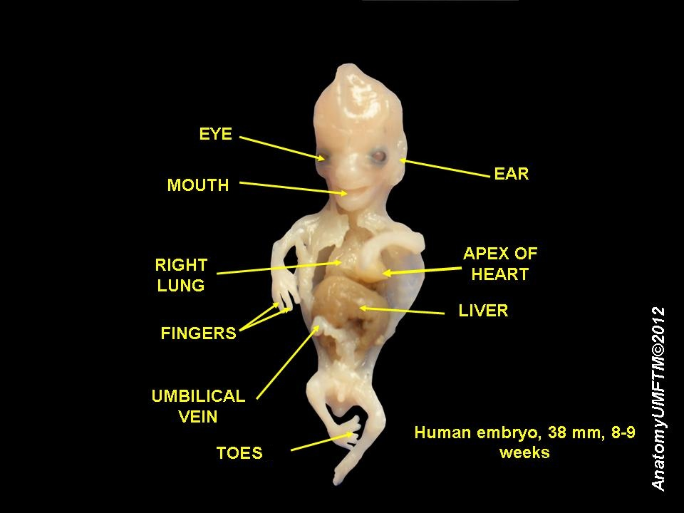 Dissection